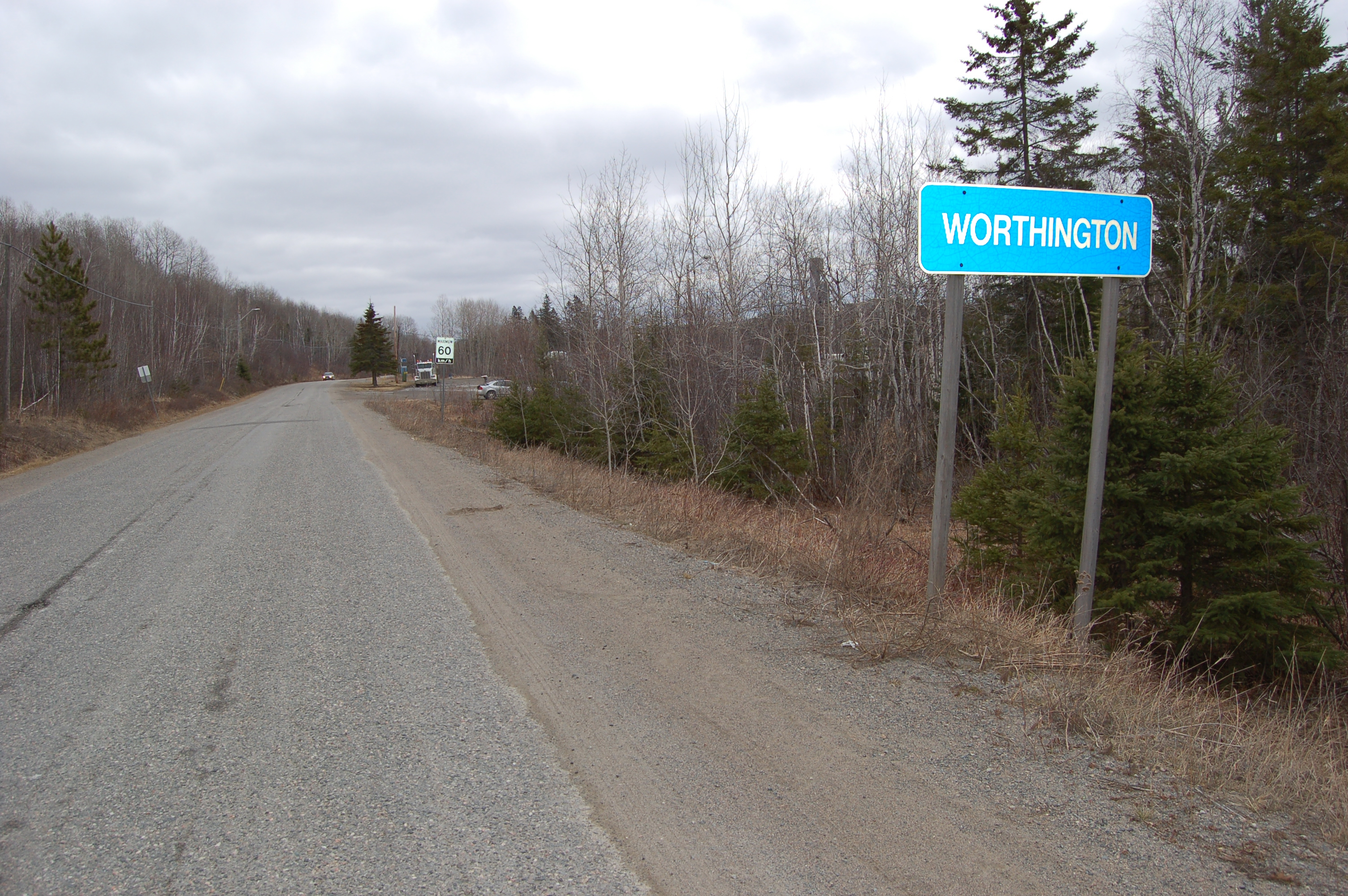 Regional Road # 4 runs through the community of Worthington, Ontario. April, 2007